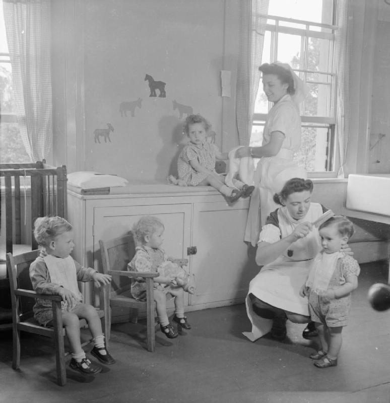 A Picture of a Southern Town- Life in Wartime Reading, Berkshire, England, UK, 1945 Nurses give young children a 'wash and brush-up' at the Massachusetts Wartime Nursery, Reading. The nursery is funded by gifts from people in the United States.